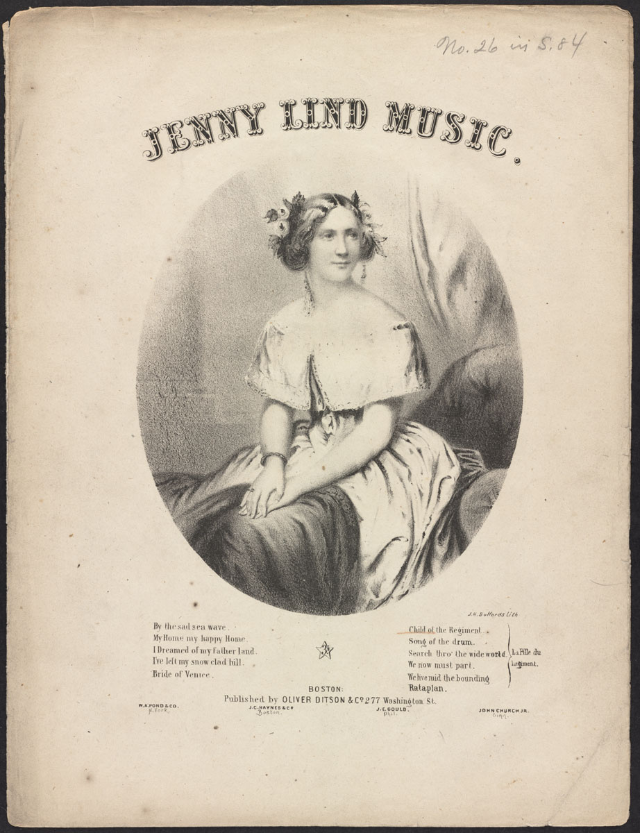 Sheet music cover with engraved portrait of Jenny Lind. Accession No.: 07_07_000034 Call Number: no. 26 of S.84 Lithographer: Bufford, John H. Title of Lithograph: Jenny Lind Composer: Donizetti Title of Composition: Songs (in English translation) from La fille du régiment Place of Publication: Boston Publisher: Oliver Ditson & Co. BPL Department: Music Flickr data on 2011-08-05: Camera: Sinar AG Sinarback 54 FW, Sinar m Tags: dc:identifier=07_07_000034 License: CC BY 2.0 User: Boston Public Library BPL